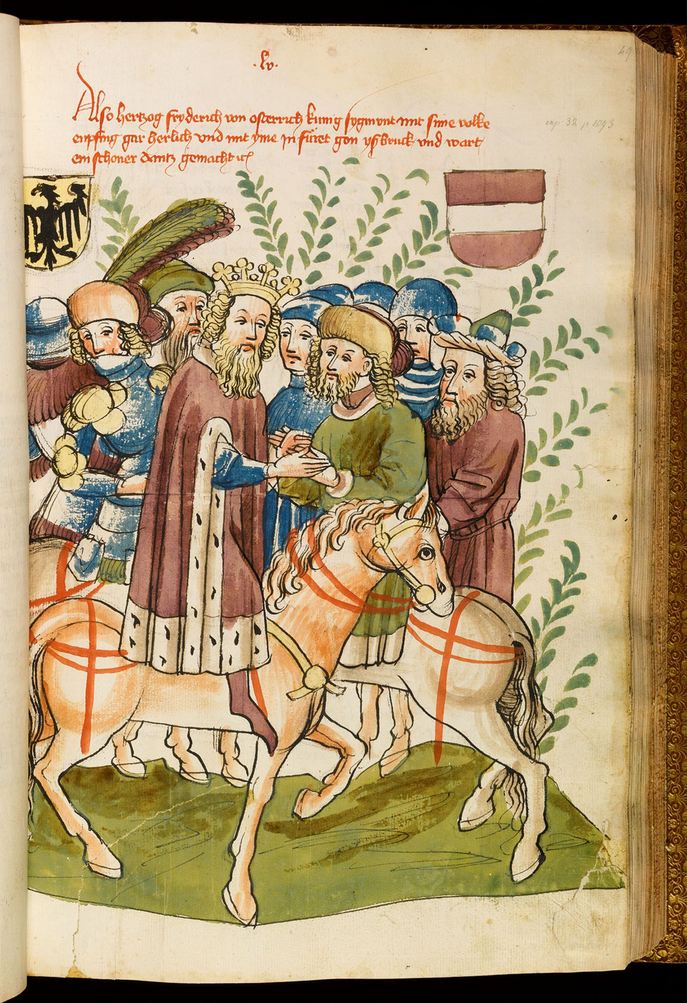 Eberhard Windeck: Das Buch von Kaiser Sigismund (Handschrift bei Sotheby's 7.7.2009, folio 49r, King Sigismund on horseback being received by Duke Frederick of Austria in the countryside outside of Innsbruck